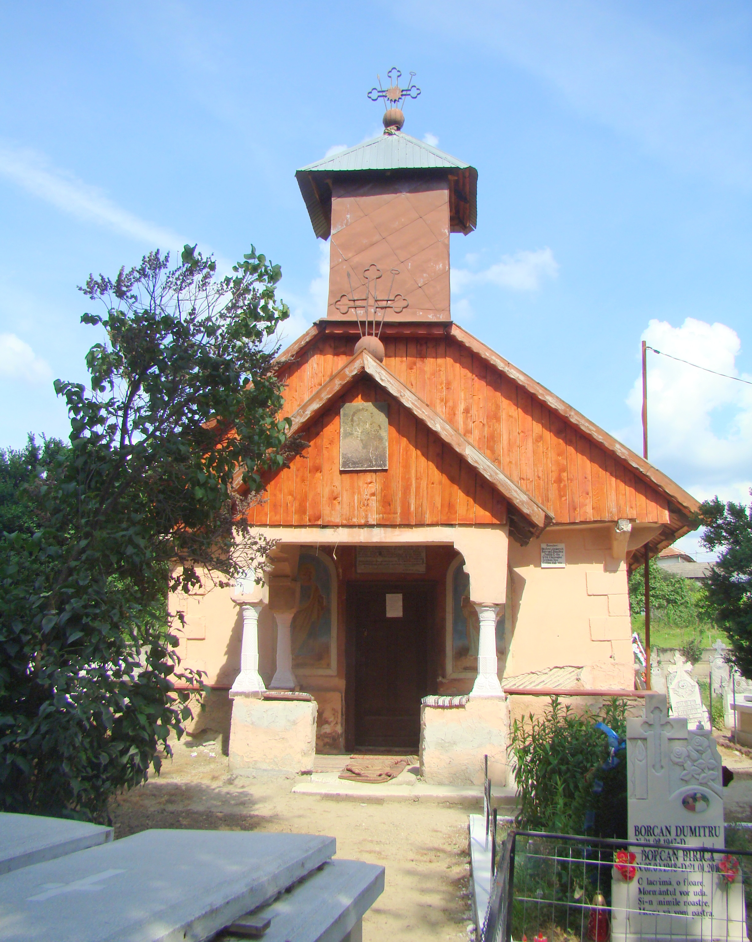 Wooden church in Lăzărești, Gorj county, Romania